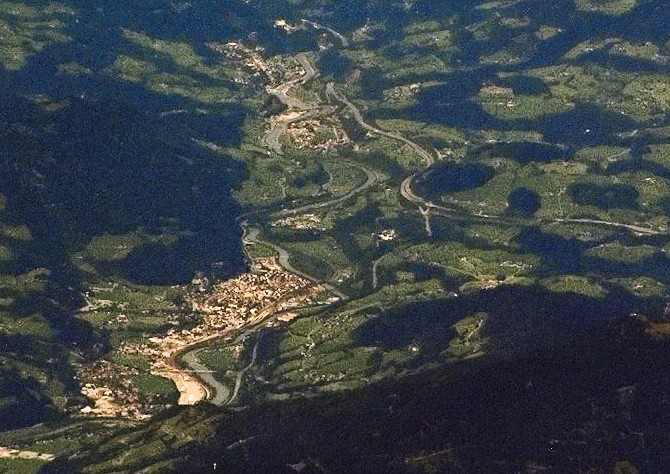 Salzach valley between Bischofshofen and Werfen)